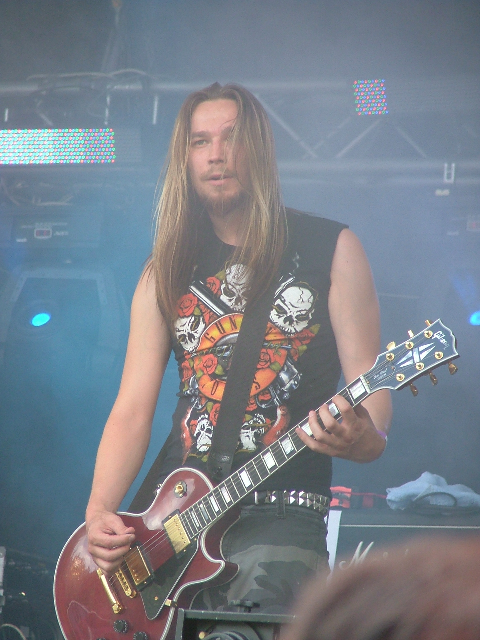 Finnish rock band Uniklubi in Kuopio at Rockcock-musicfestival